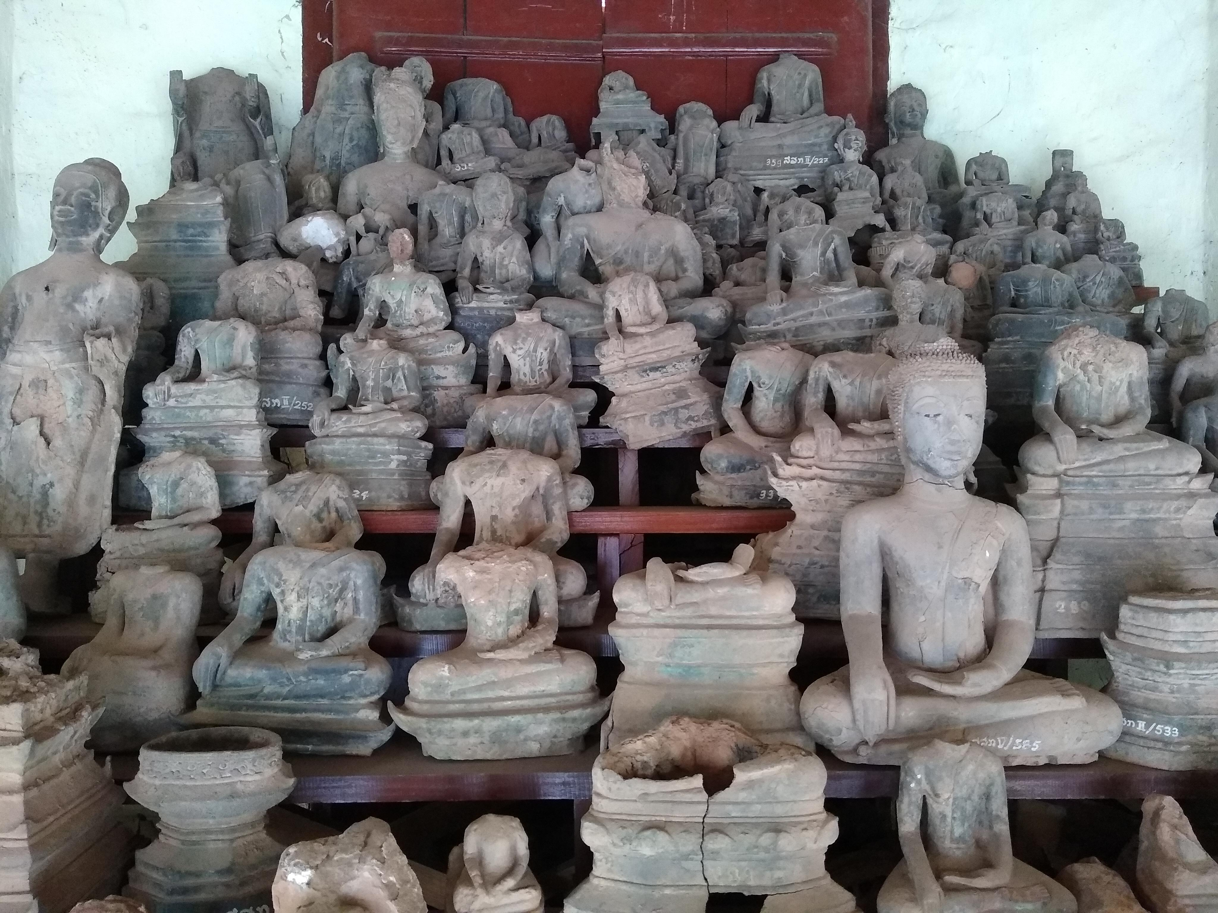 A collection of 18th-century bronze Buddha statues from temples in Vientiane, damaged when Laos was invaded in 1826-1828. Now on display at Wat Sisaket. The label reads: "The storage room These Buddha images were broken when Laos had been invaded by the border country in 1826-1828. We had collected them from the temples in Vientiane Capital. The Buddha images made of bronze in 18th century."